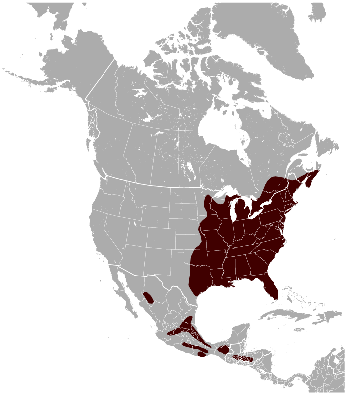 Geographical distribution of the Southern Flying Squirrel Glaucomys volans. The map was created using the Generic Mapping Tools, GMT, version 5.1.1.